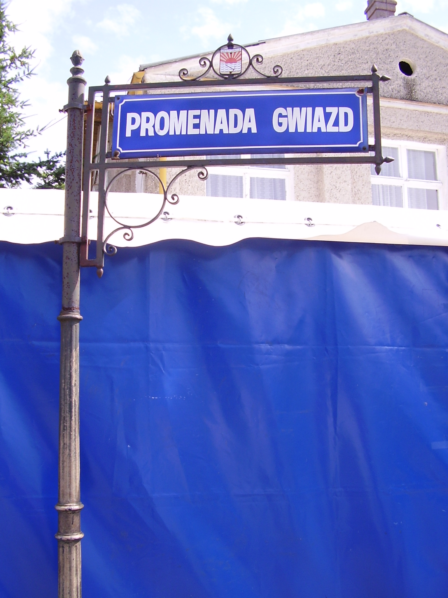 Promenada Gwiazd in Międzyzdroje (Poland).